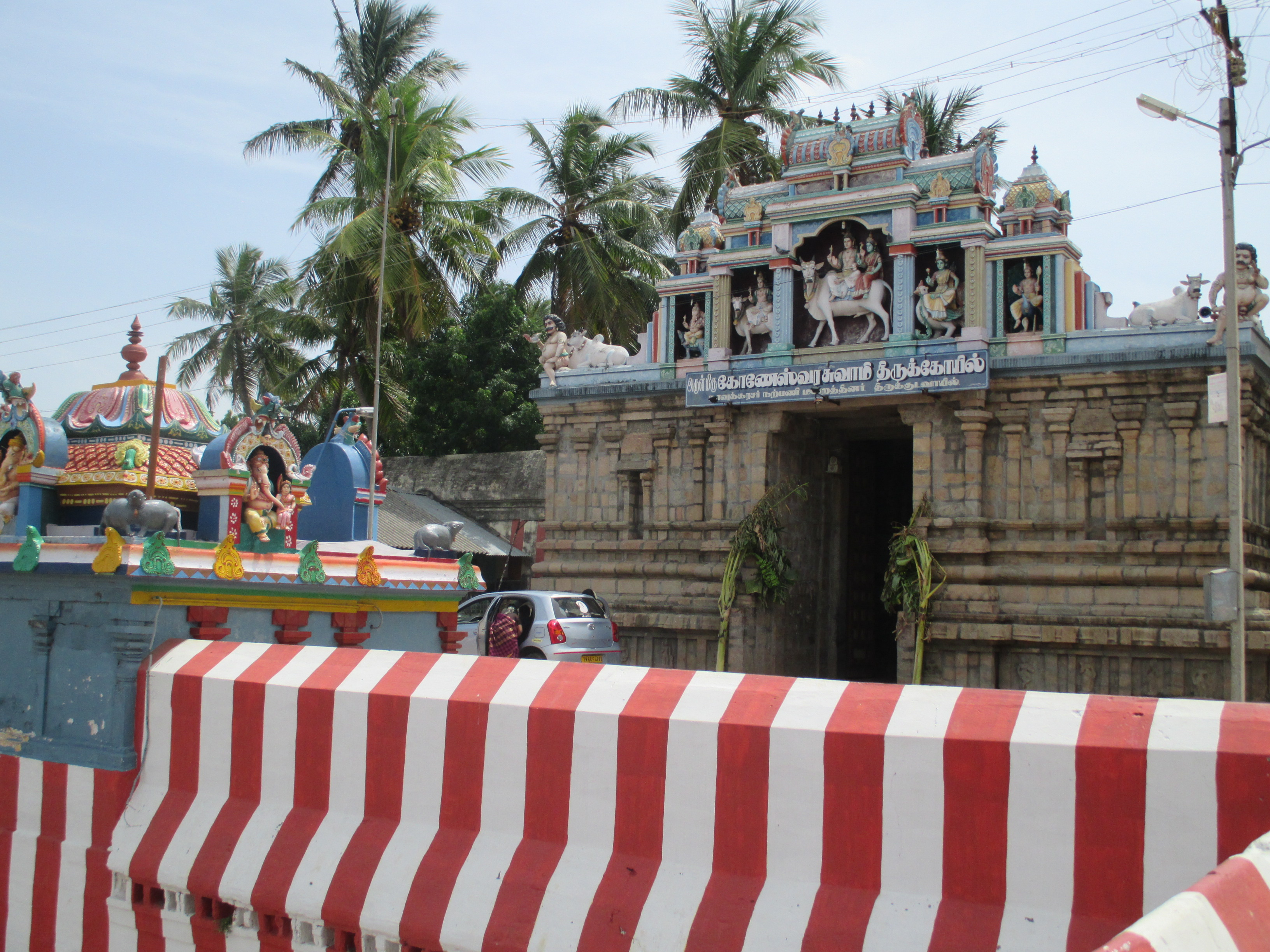 Koneswarar Temple